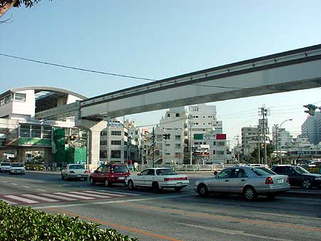 Asahibashi Intersection in Naha